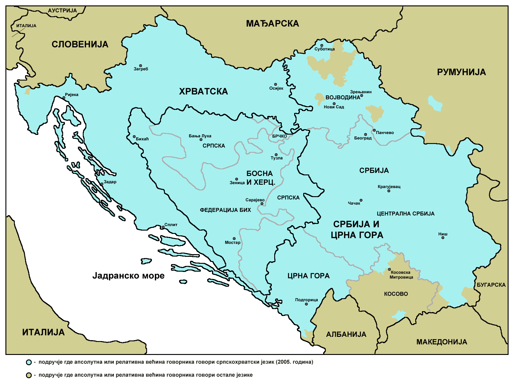 Area where the Serbo-Croatian language or Serbo-Croatian diasystem is spoken by the majority or plurality of speakers (as of 2005) - data by municipalities. Note: many modern linguists still consider Serbo-Croatian to be a single language, no matter that the majority of its speakers declare in census that they speak its official standard forms: Serbian, Croatian, Bosnian, and Montenegrin.